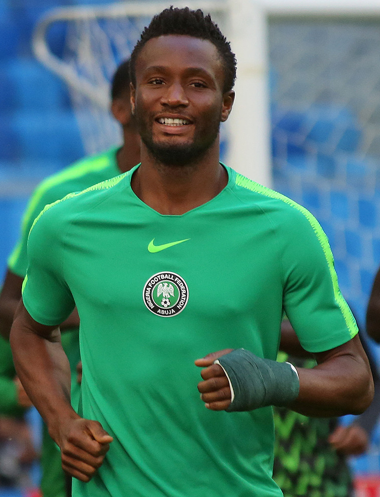 Nigerian footballer John Obi Mikel on 25 June 2018, during a training session at the 2018 FIFA World Cup.